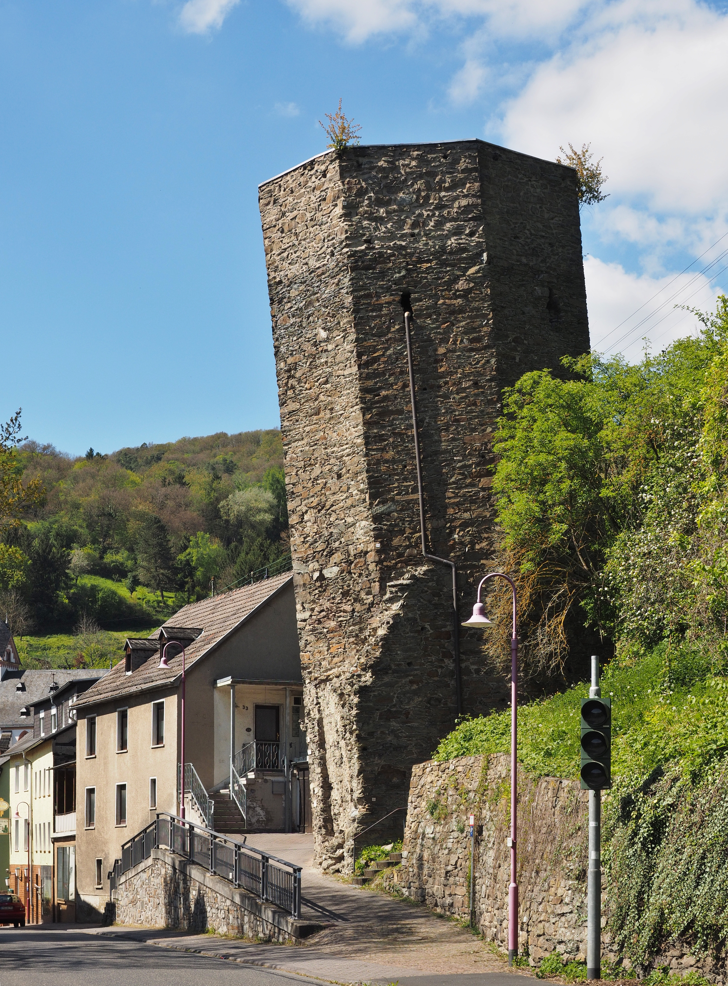 The Leaning Tower of Dausenau, Germany, is supposed to be the most not intentionally leaning tower in the world (5.22 degrees).